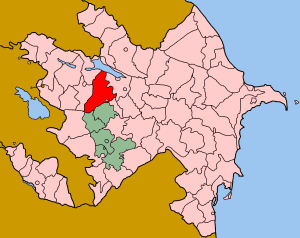 Map of Azerbaijan showing Goranboy rayon. The southern portion of this rayon is claimed by the self-proclaimed Nagorno-Karabakh Republic, but it was not part of the Nagorno-Karabakh Autonomous Oblast, and is not reflected on this map.